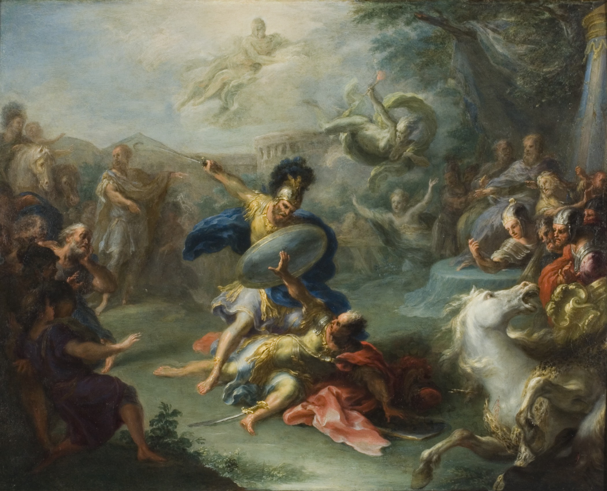 Italy, circa 1700 Paintings Oil on copper 31 x 37 in. (78.74 x 93.98 cm) Purchased with funds provided by Axel and Jacob Beskow, anonymously in memory of Dr. Charles Henry Strub, Magda Boyan, C.H. Matthiesson, Jr., Victor Hammer, and Elliot Leonard by exchange (M.2000.93) European Painting Currently on public view: Ahmanson Building, floor 3